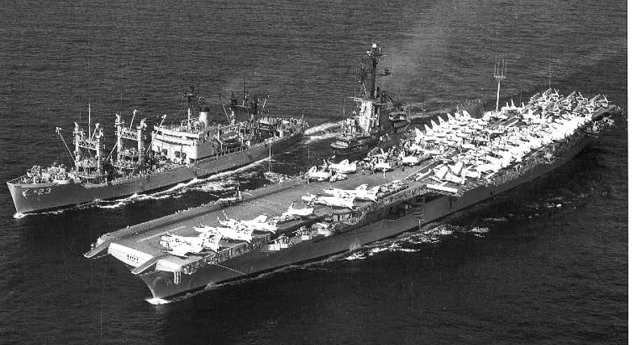 The U.S. ammunition ship USS Nitro (AE-23) replenishing the attack carrier USS Intrepid (CVA-11), circa 1960-1962.